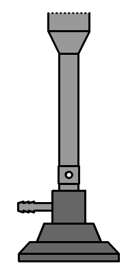 scheme of Méker burner made in Macromedia Flash 5